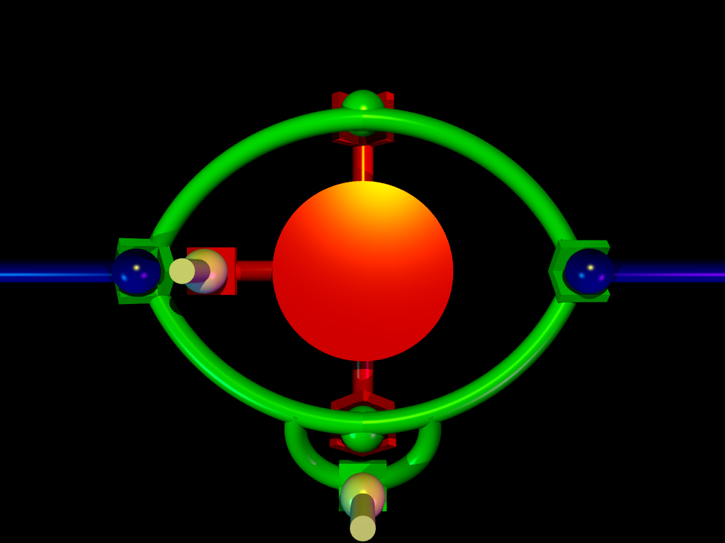 A caricature of a gimbal mount aka cardanic mount, showing all but the threads. Arne Rosenfeldt 2006-01-08 POV-Ray For the en. page of the same name